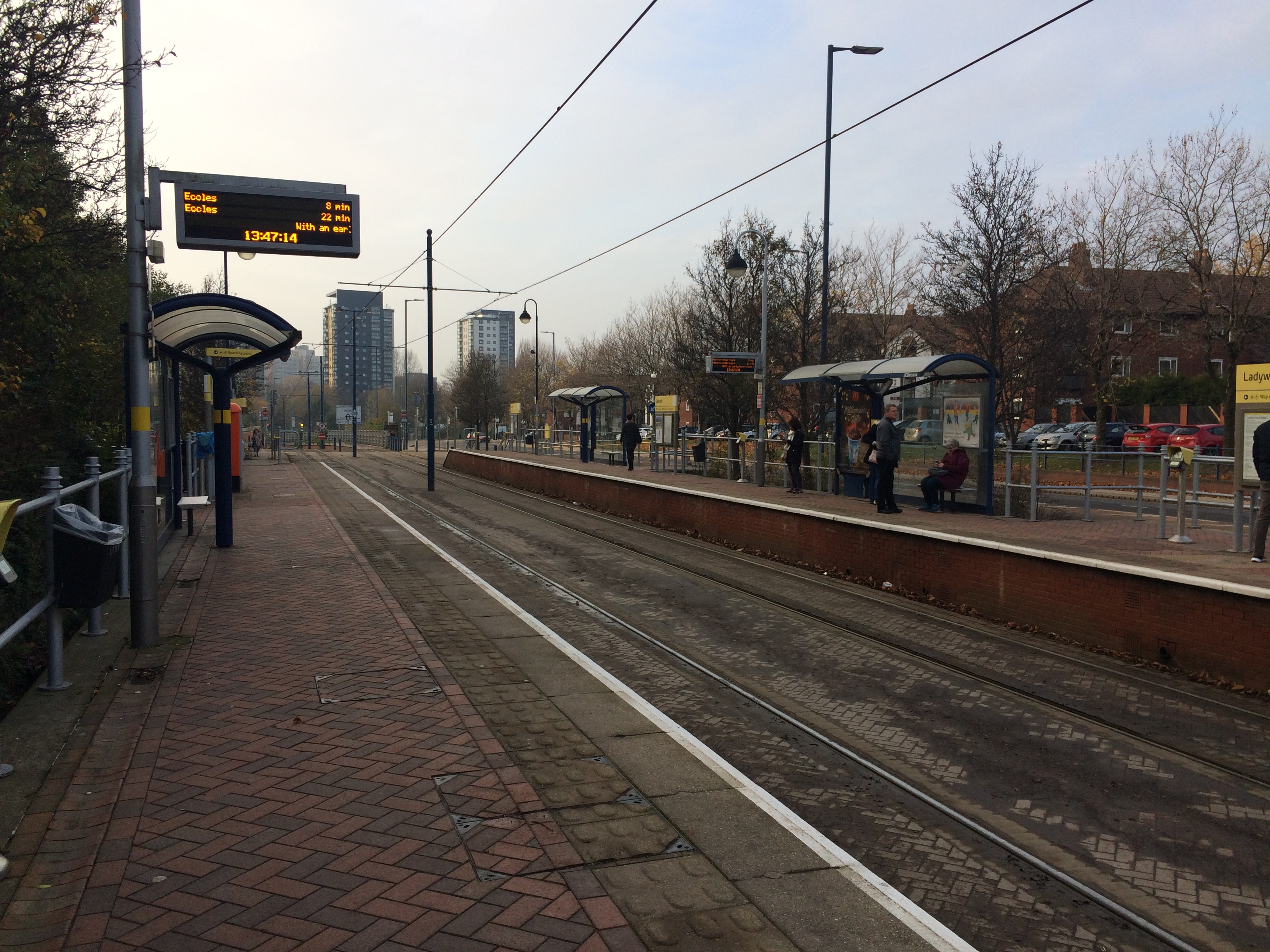 Ladywell